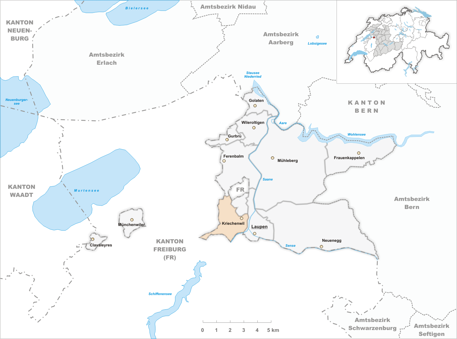 Municipality Kriechenwil